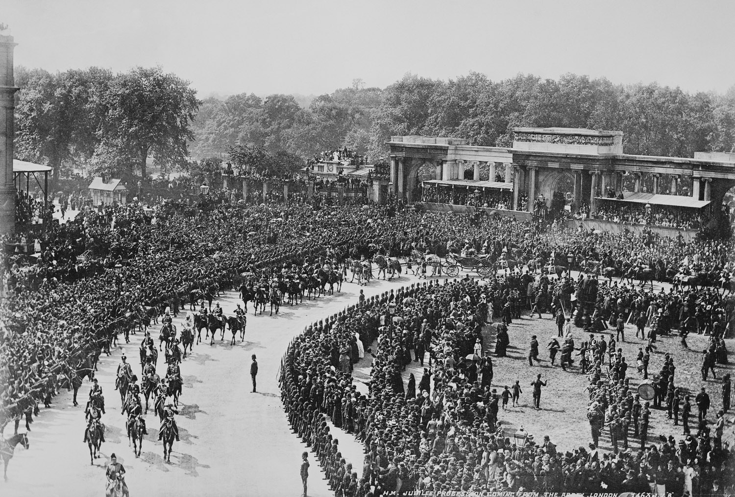 Photograph of Queen Victoria's Jubilee Procession at Hyde Park Corner, returning from Westminster Abbey